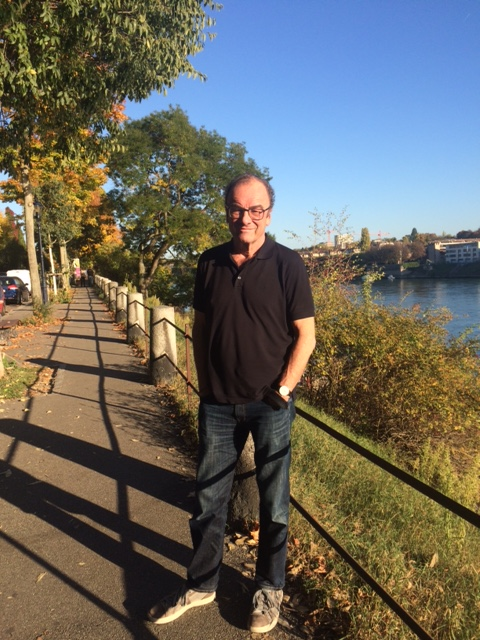 Robert Menasse, October 2017